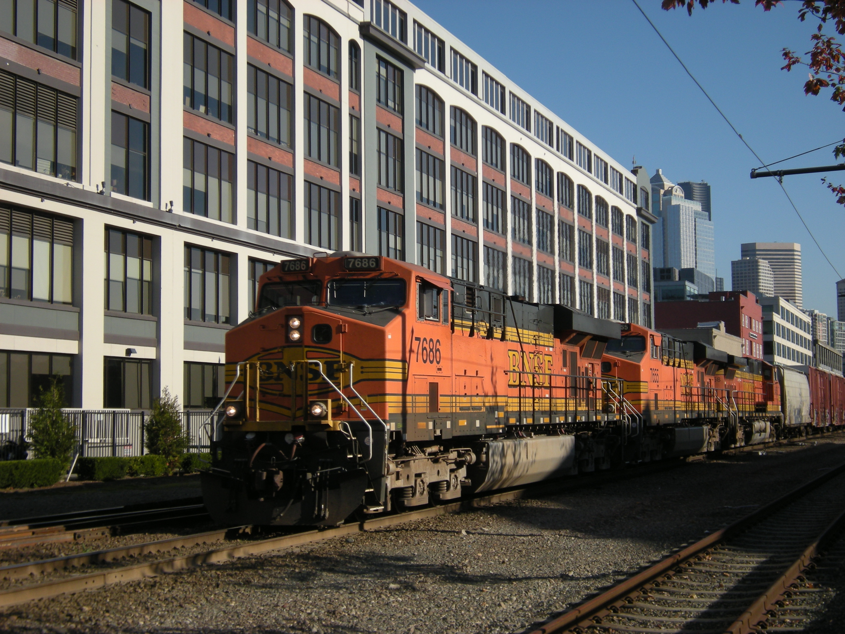 The former American Can Company building, from the Alaskan Way side, Seattle, Washington with BNSF train passing by. The building, recently the Seattle Trade Center, houses RealNetworks and part of the Art Institute of Seattle. For more about the building see Summary for 2601 Elliott AVE / Parcel ID 0653000250, Seattle Department of Neighborhoods.